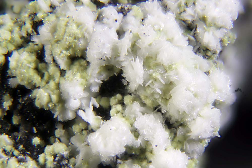 White crystals of the rare ammonium sulphate mineral letovicite from Anna Mine (Anna 2 Mine, Aachen, North Rhine - Westphalia, Germany). Letovicite is one of the few minerals that are a mixture between an organic (NH4) and an inorganic (SO4) mineral.